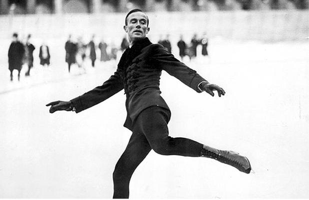 Gillis Grafström won three Olympic golds all together in ice-skating. One of the golds in Chamonix.